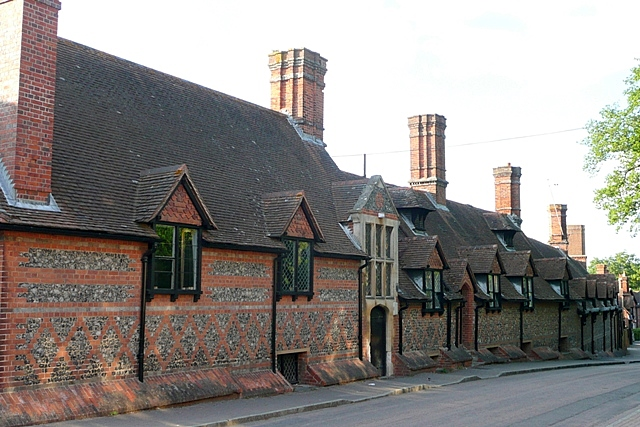 Bradfield College This shows the original buildings of the college from the outside. The school was founded in 1850, so I am guessing that the buildings date from that time although these look considerably older.